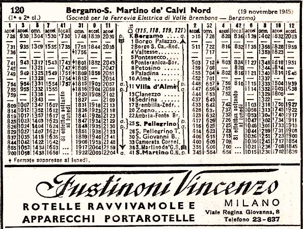 Val Brembana railway, 1945 timetable